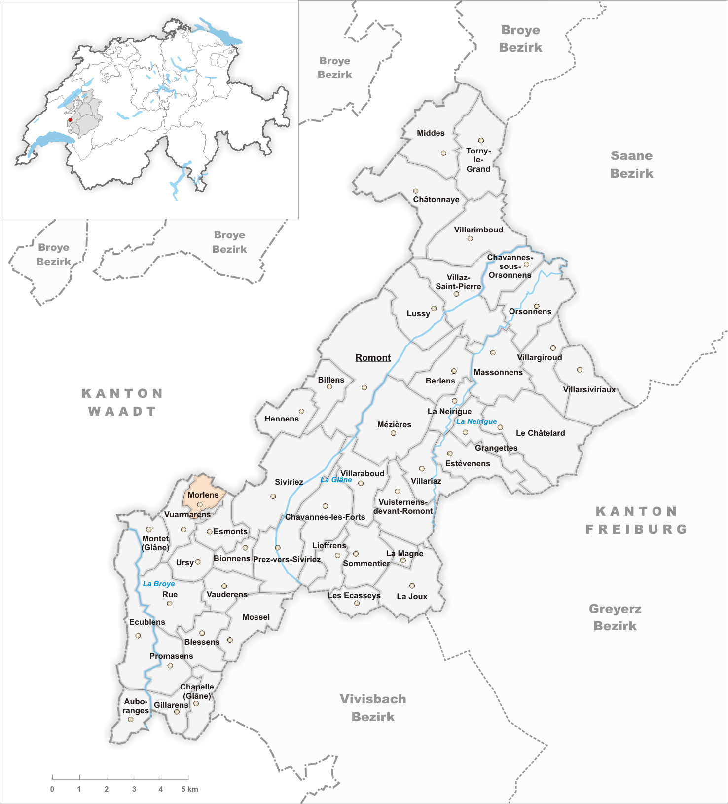 Municipality Morlens Artist: Tschubby